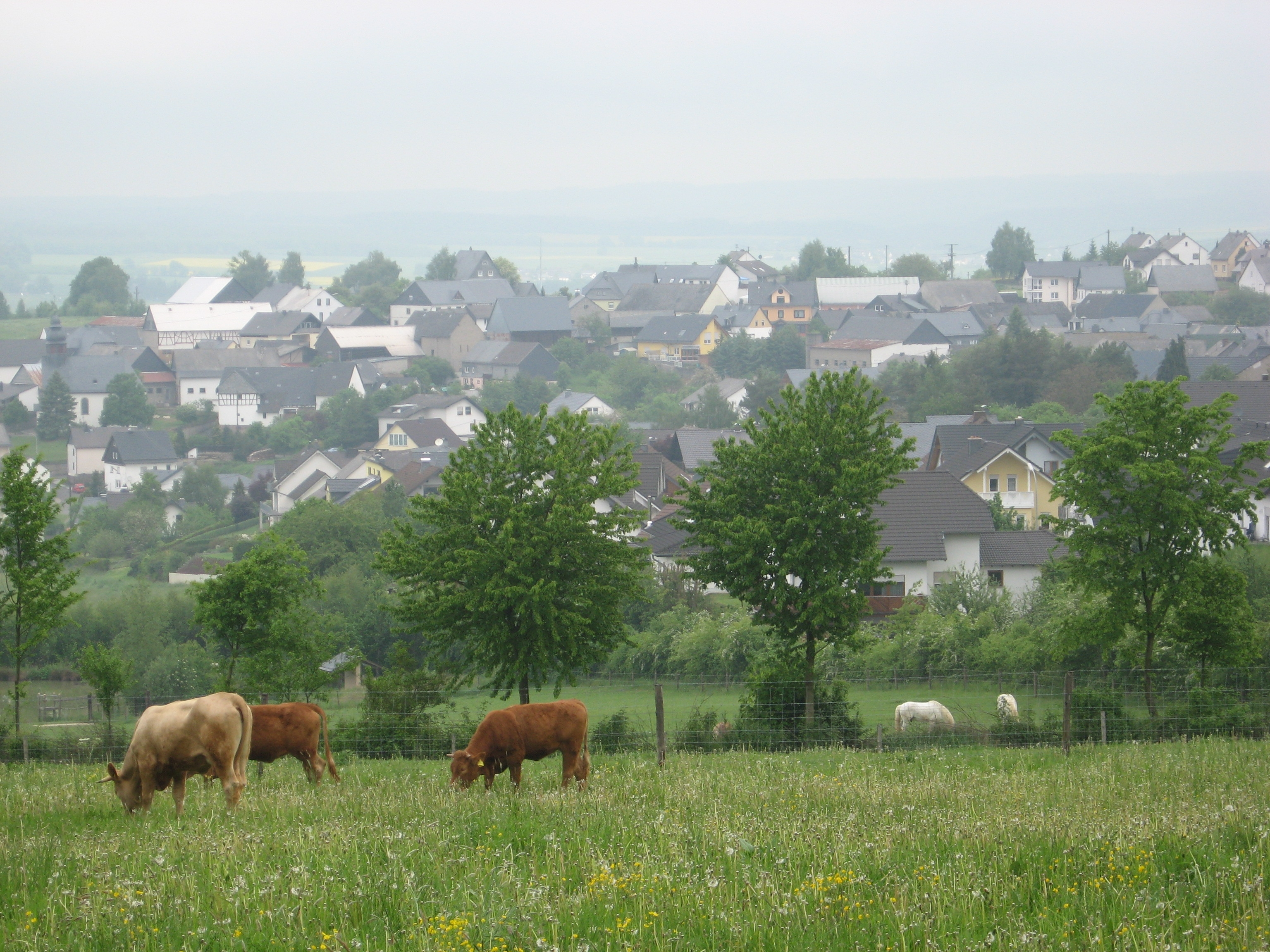 Village Holzbach in the Hunsrück landscape, Germany.